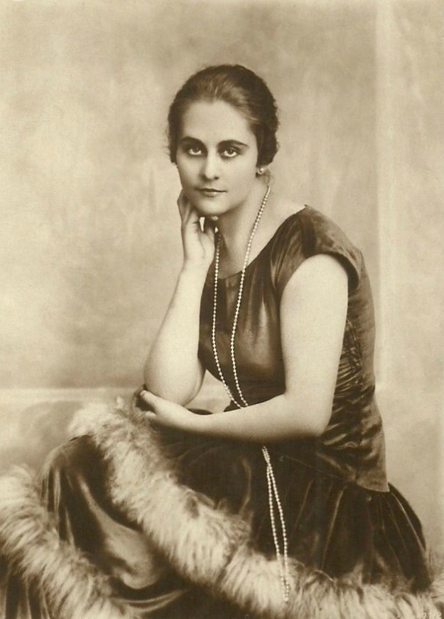 Postcard portrait of German actress Carola Toelle (1893–1958) by Becker & Maass.